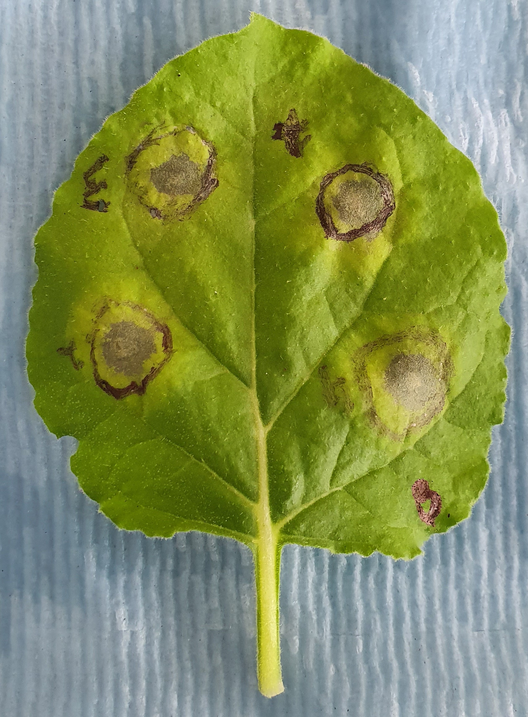 The circled lesions are caused by the hypersensitive response which is initiated in response to pathogen infection.